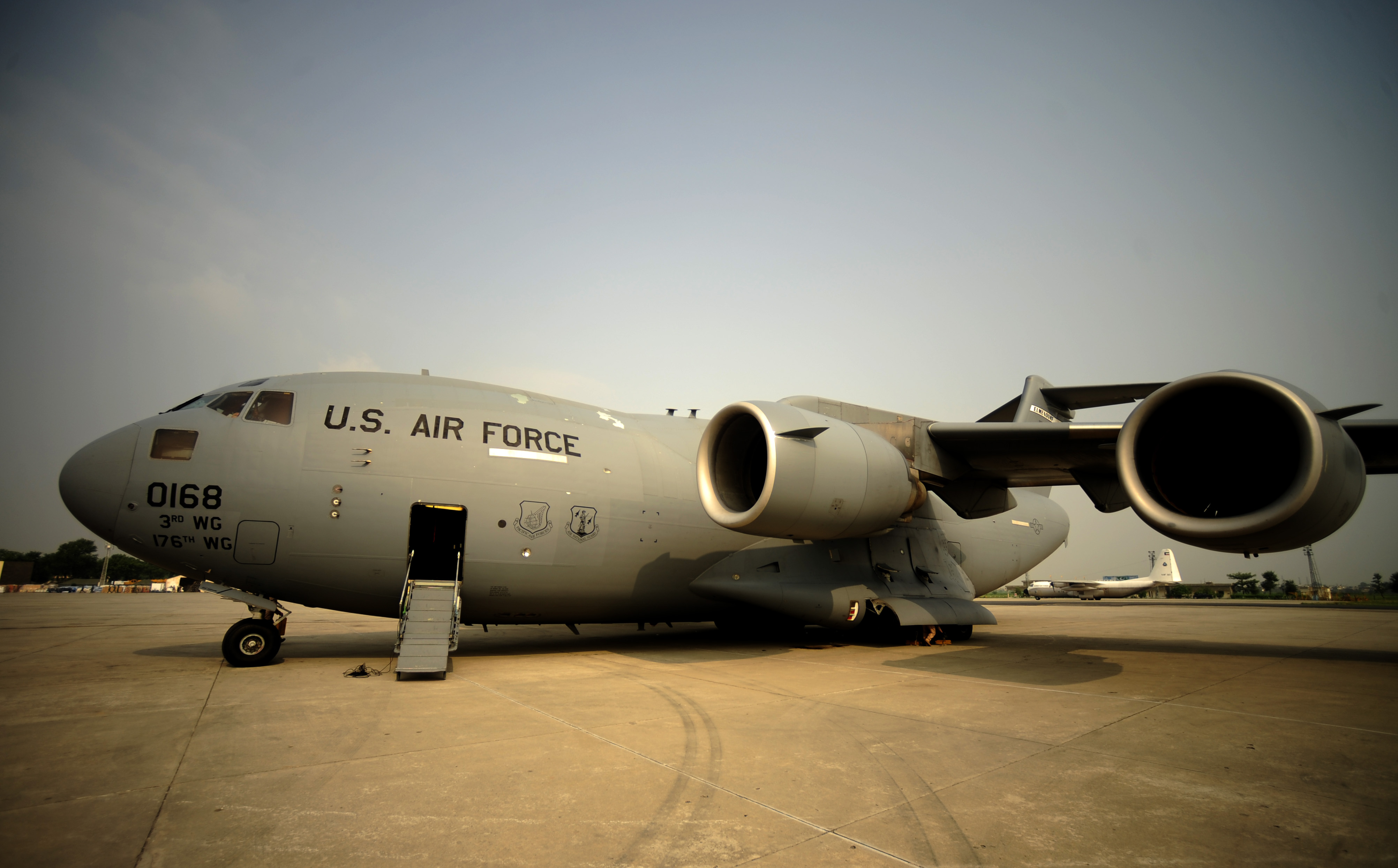 A U.S. Air Force C-17 Globemaster III aircraft assigned to the 517th Airlift Squadron out of Elmendorf Air Force Base, Alaska, arrives at Pakistan Air Force Base Chaklala, Pakistan, with members of the 16th Combat Aviation Brigade (CAB) in support of flood relief efforts Sept. 1, 2010. The 16th CAB brought two UH-60 Black Hawk helicopters and personnel for upcoming relief efforts.